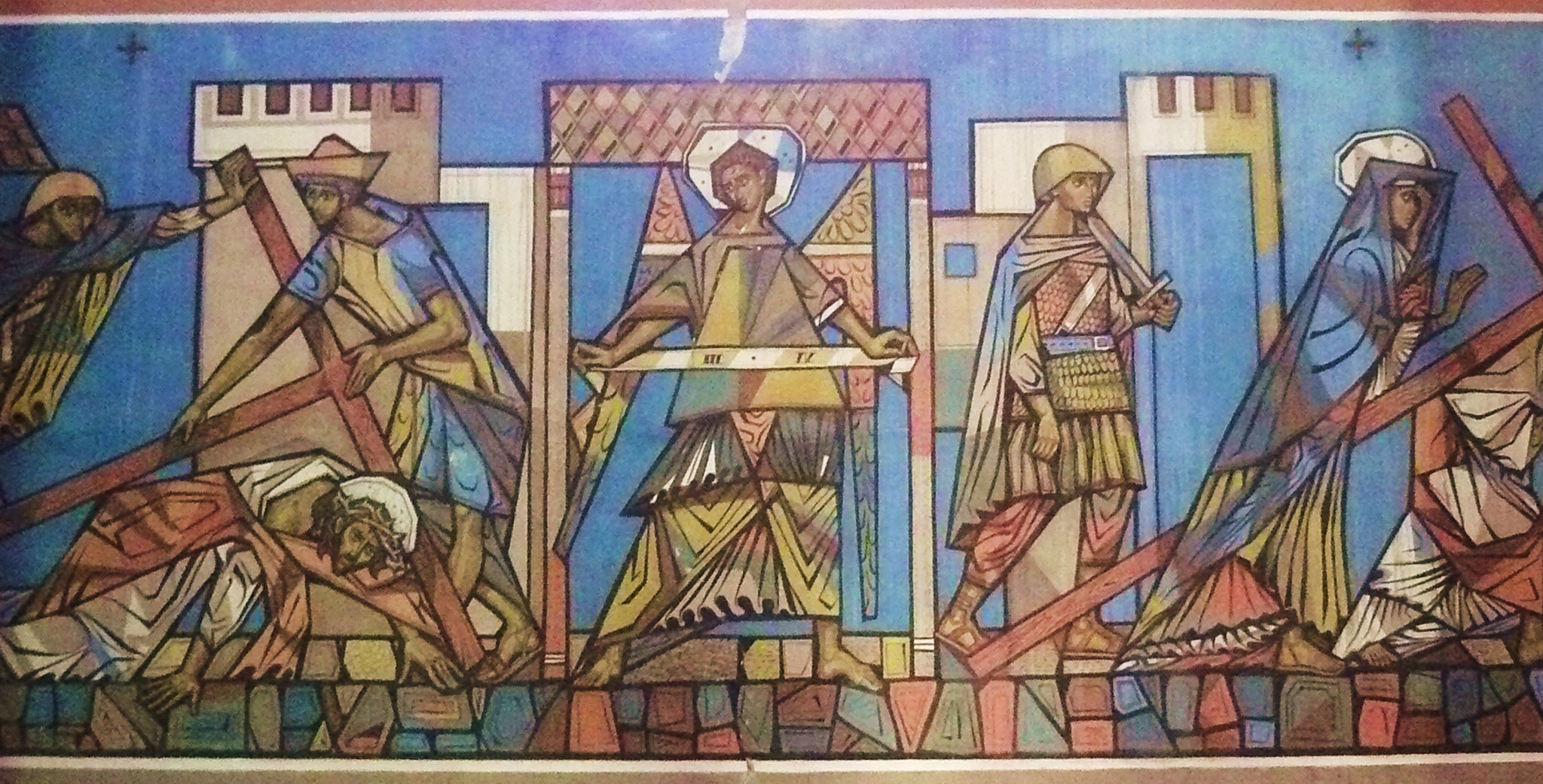 Sgraffito in Poznan - Church of St. Antoni.